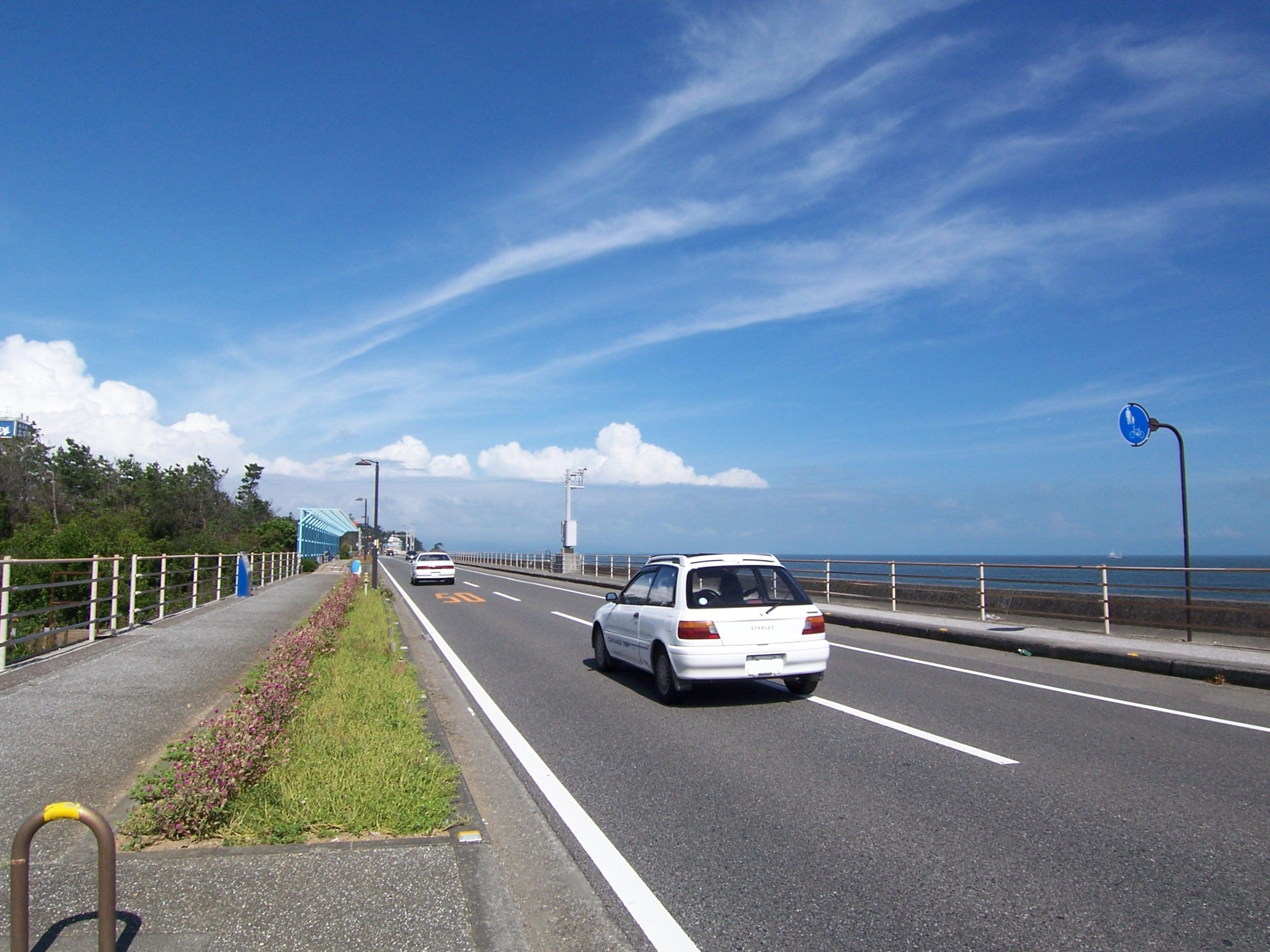 Kuroshio line, Kochi prefecture, Japan